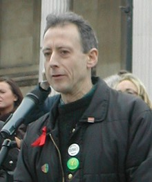 Human rights activist Peter Tatchell